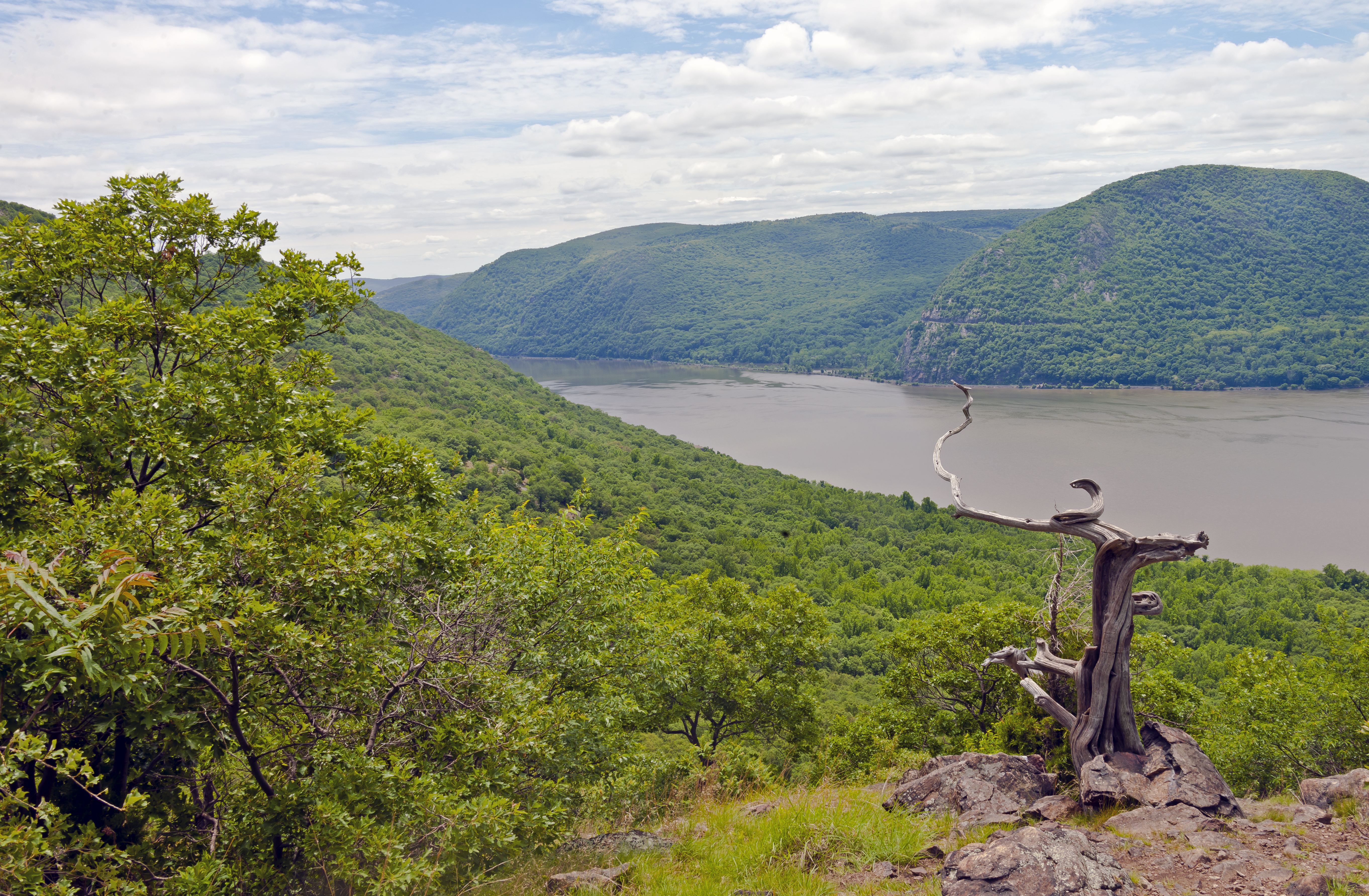 View south down the Hudson River from south end of the summit of Sugarloaf Mountain in the Hudson Highlands, with Storm King across the river and the frequently-photographed tree in the foreground